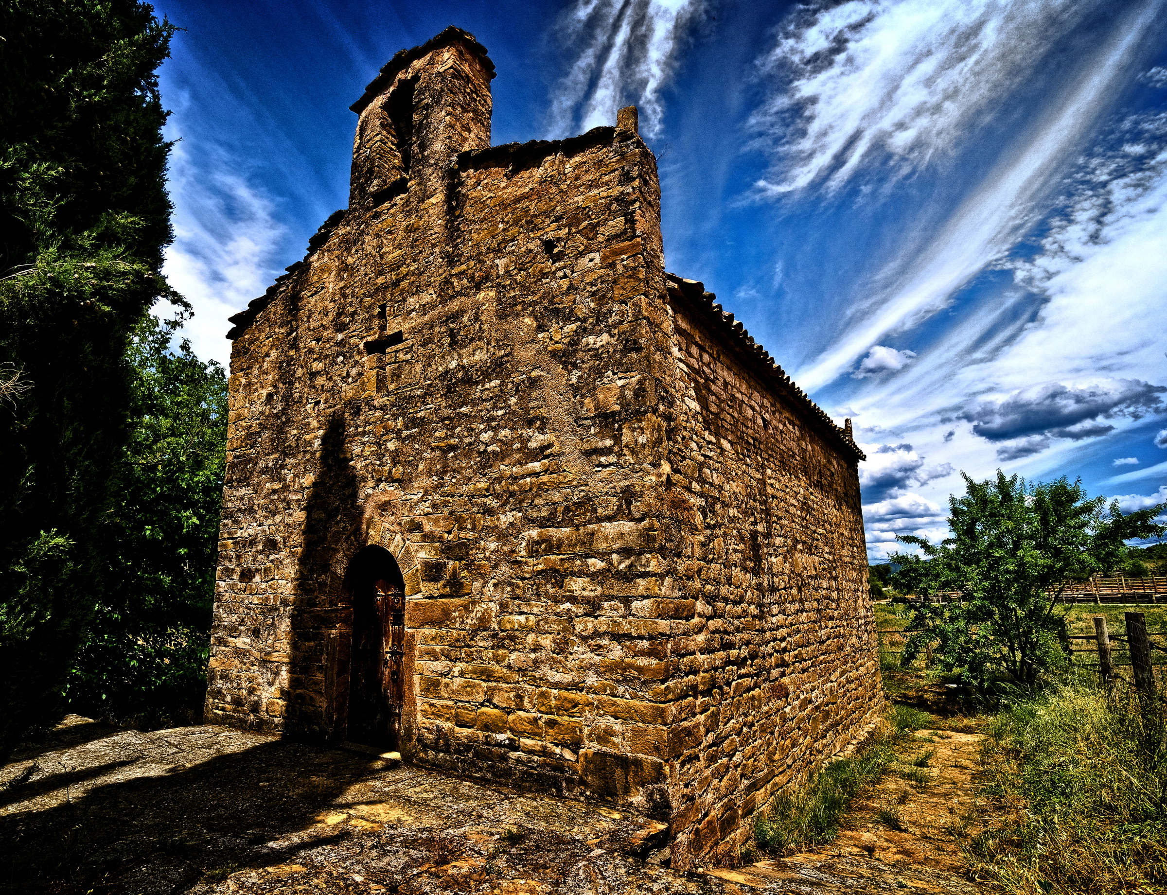 Saint Christopher is an eleventh century church, the front was stretched during the seventeenth century.